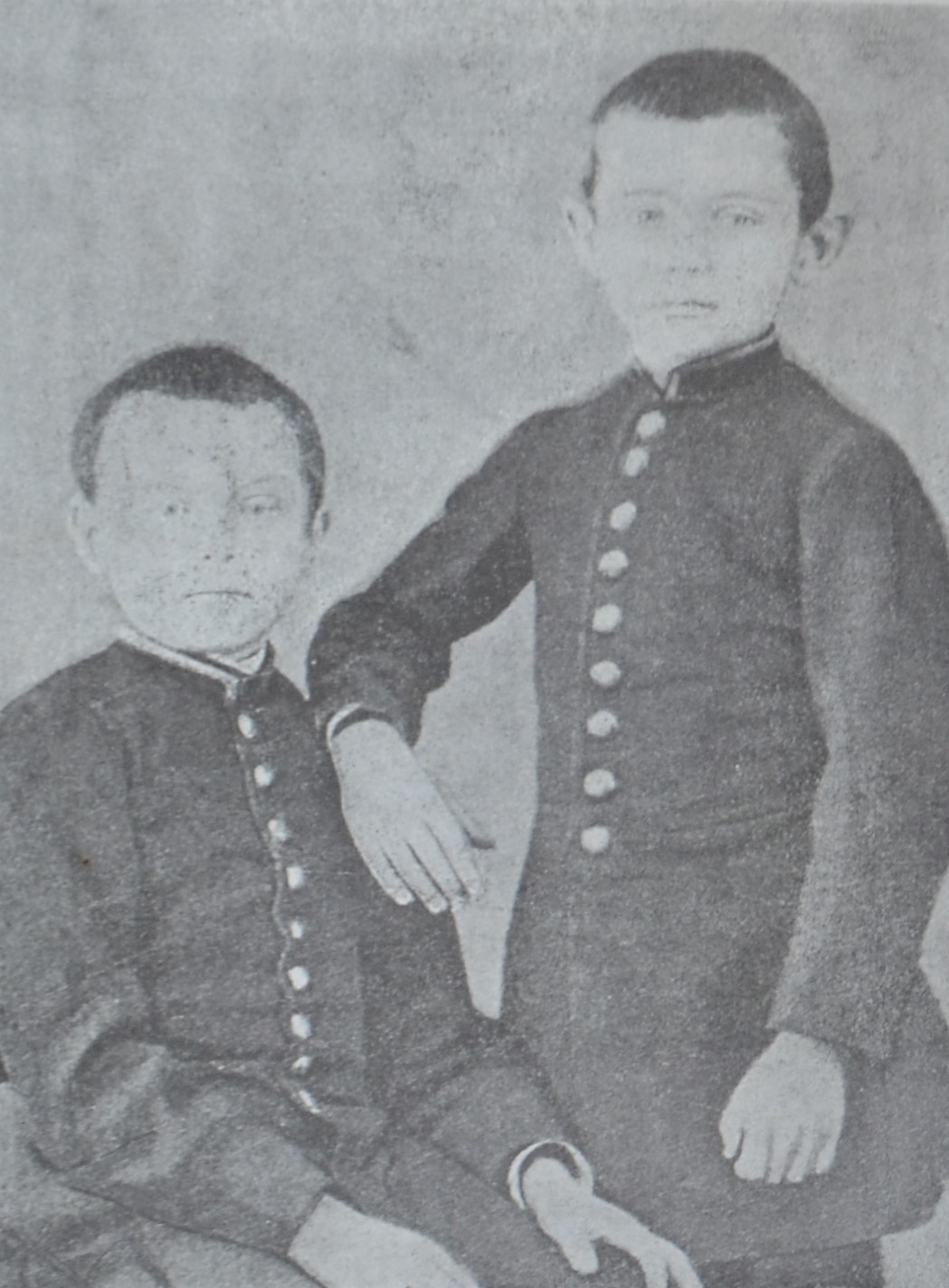 Leonin Krasin, on the right, student in Kurgan, Tobolsk Governorate in Siberia around 1877